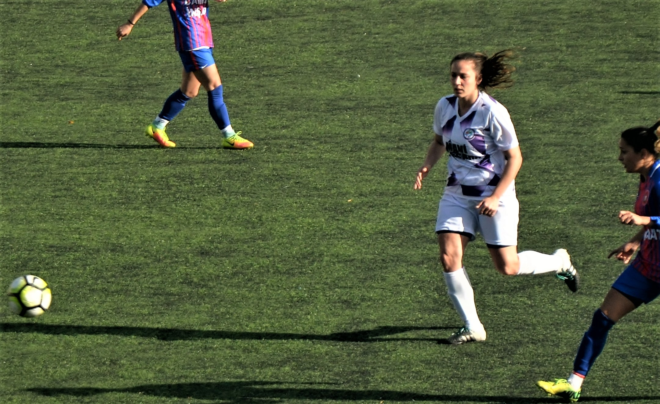 Serenay Öziri playing for Kdz. Ereğli Belediye Spor in the 2017-18 Turkish Women's First Football League.